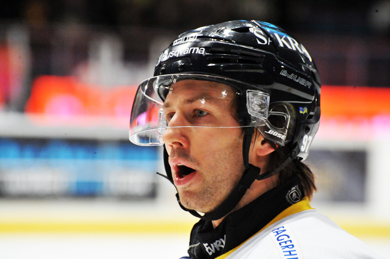 Ice hockey player Per Ledin of HV71 during a game in February 2013